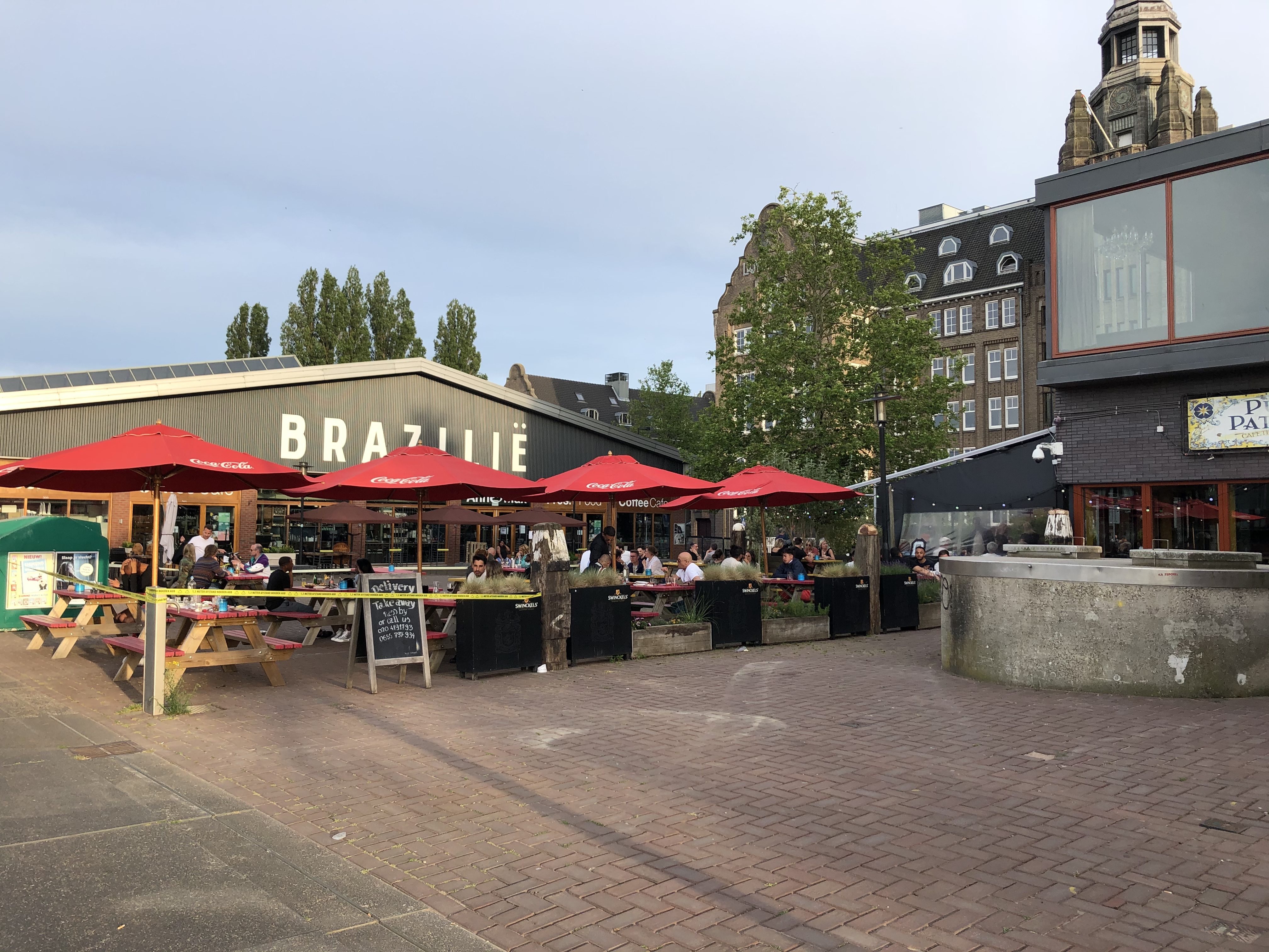 On June 1st 2020, after a period of 78 days, Dutch restaurants and bars opened again after closing down because of the COVID-19 pandemic. Pictured here is the terrace of a Spanish restaurant in Amsterdam.